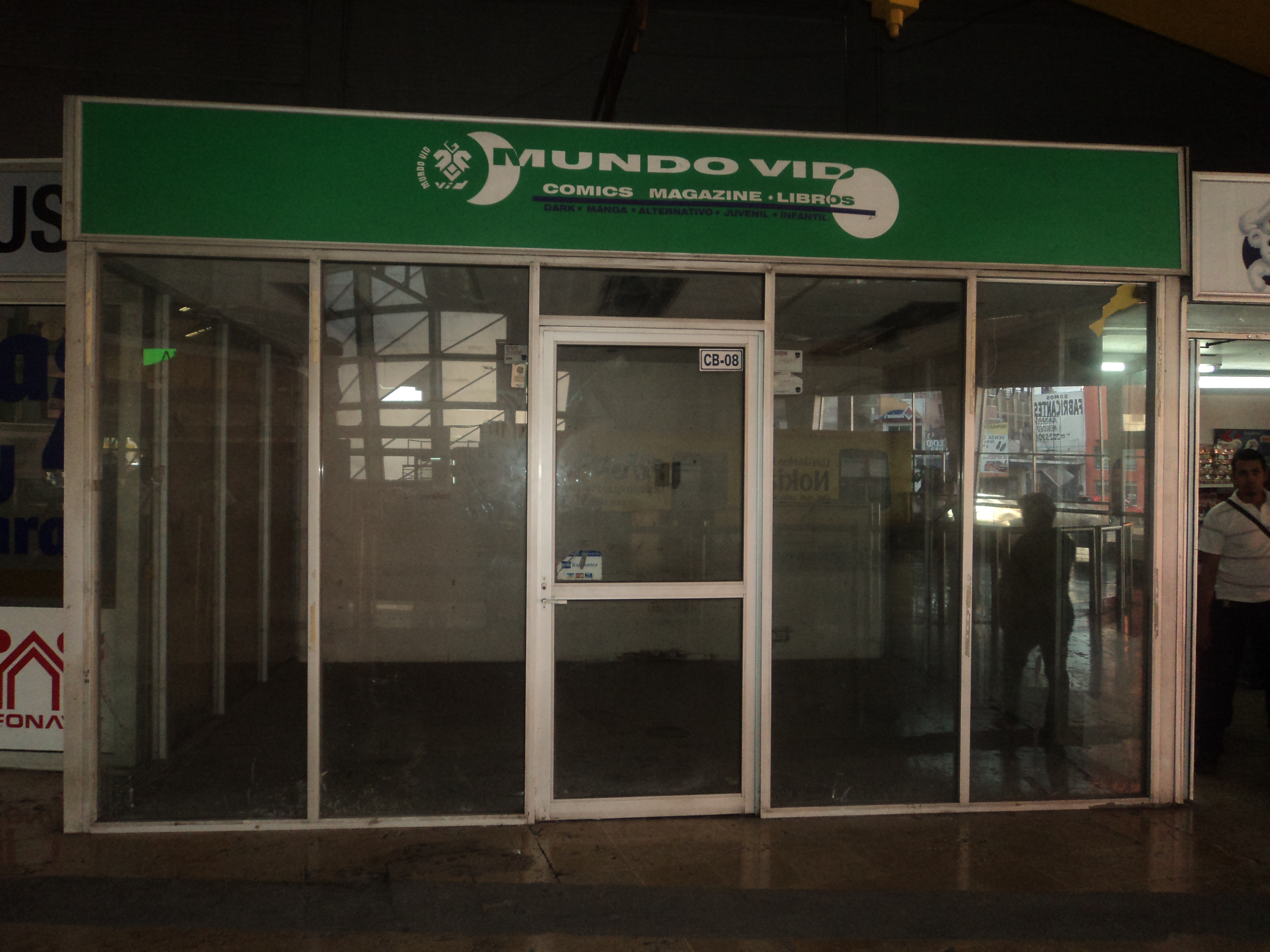 Foto de una tienda de ventas de la editorial vid cerrada